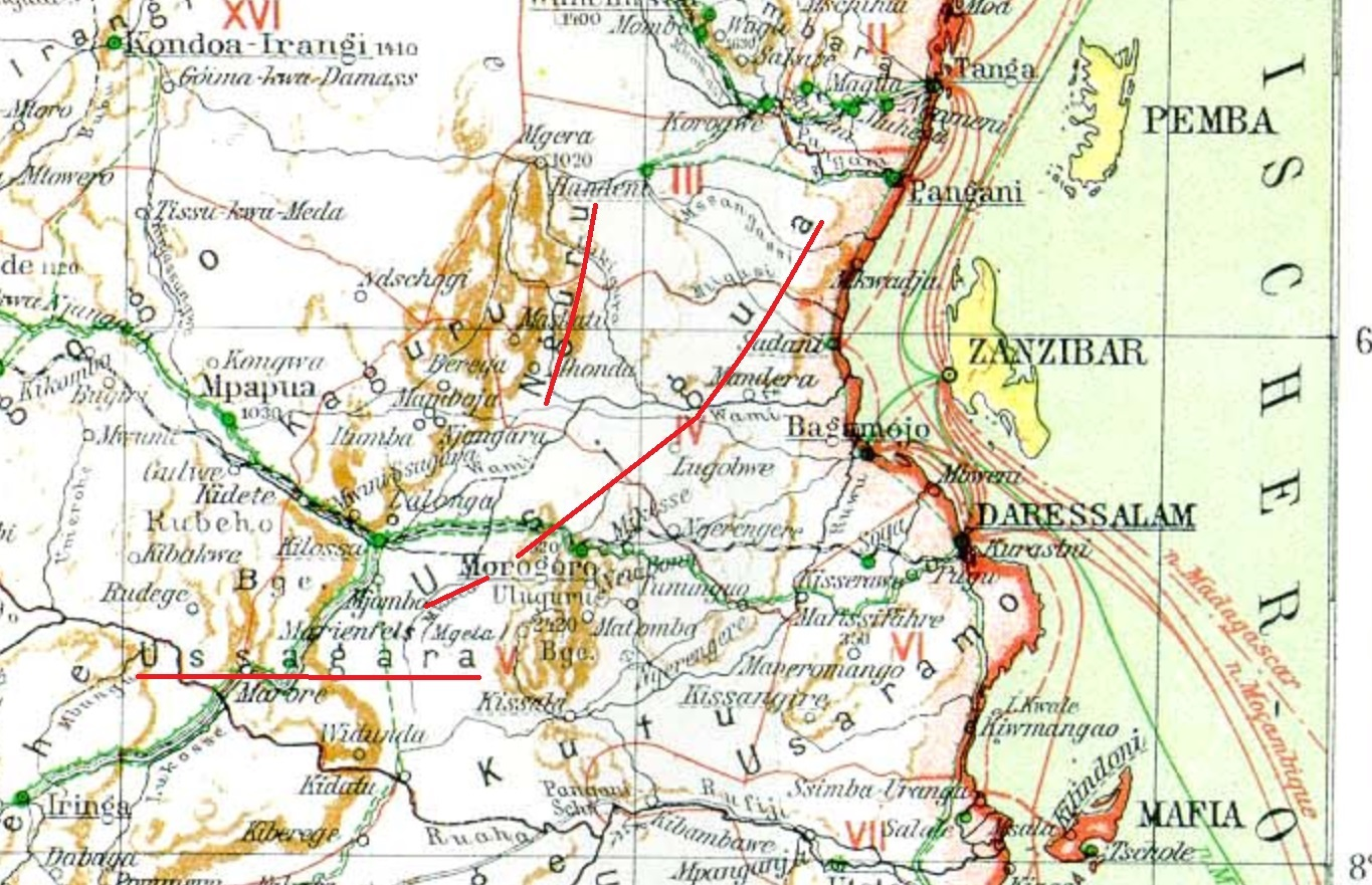 Areas where Carl Peters collected signatures of local rulers for his start into the colony of German East Africa